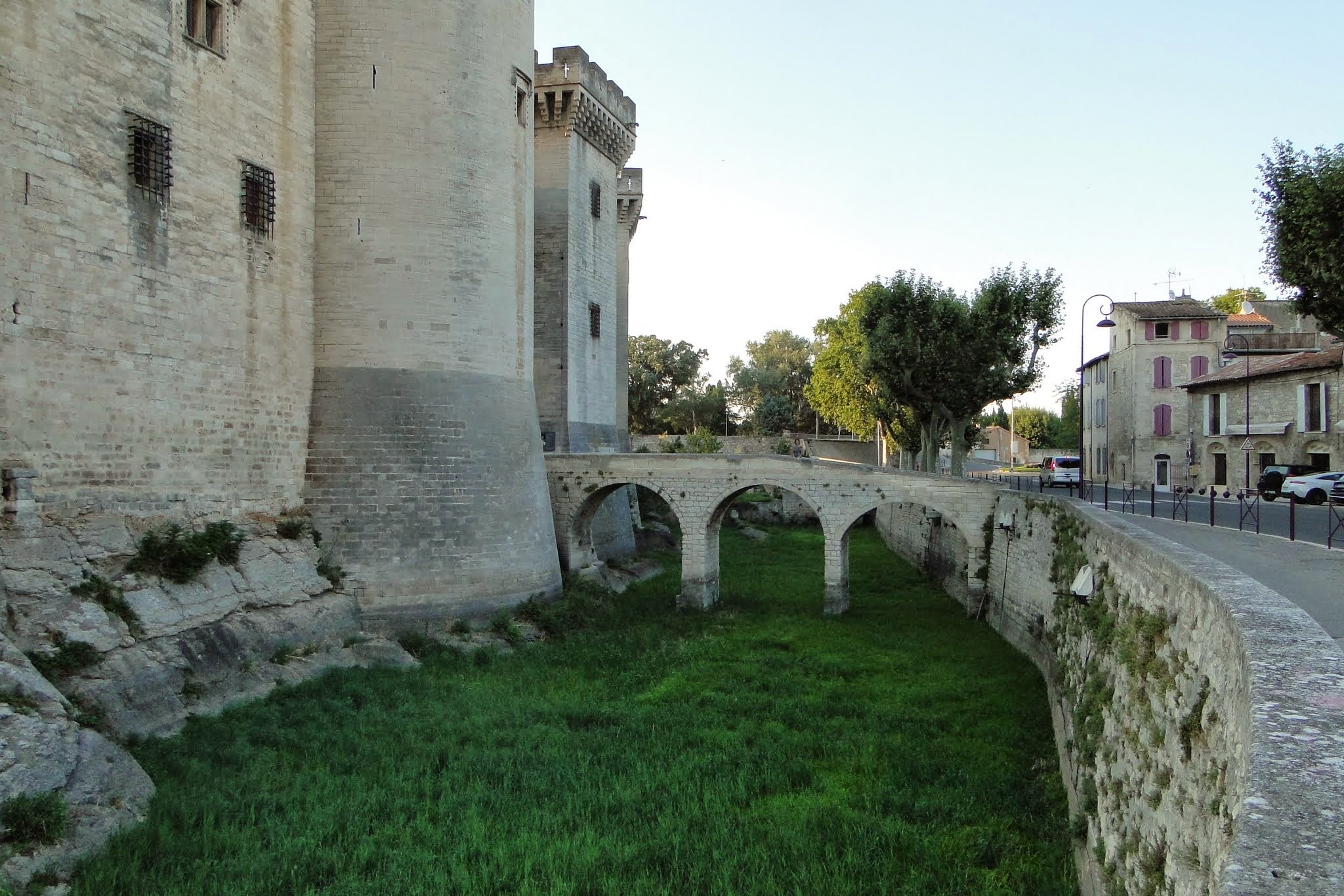 Средневековый замок со рвом